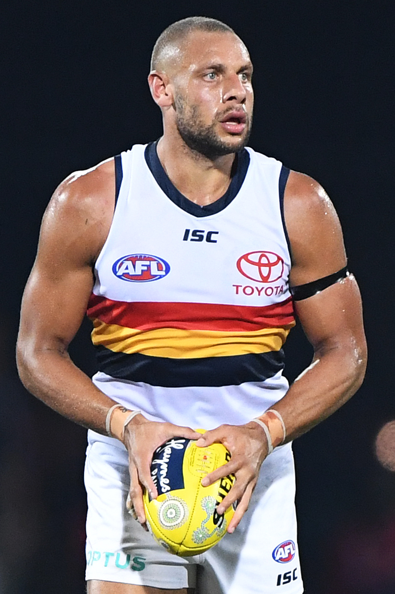 Cam Ellis-Yolmen of Adelaide during the 2019 AFL round 11 match between Melbourne and Adelaide at TIO Stadium on Saturday, 1 June 2019 in Darwin, Northern Territory.